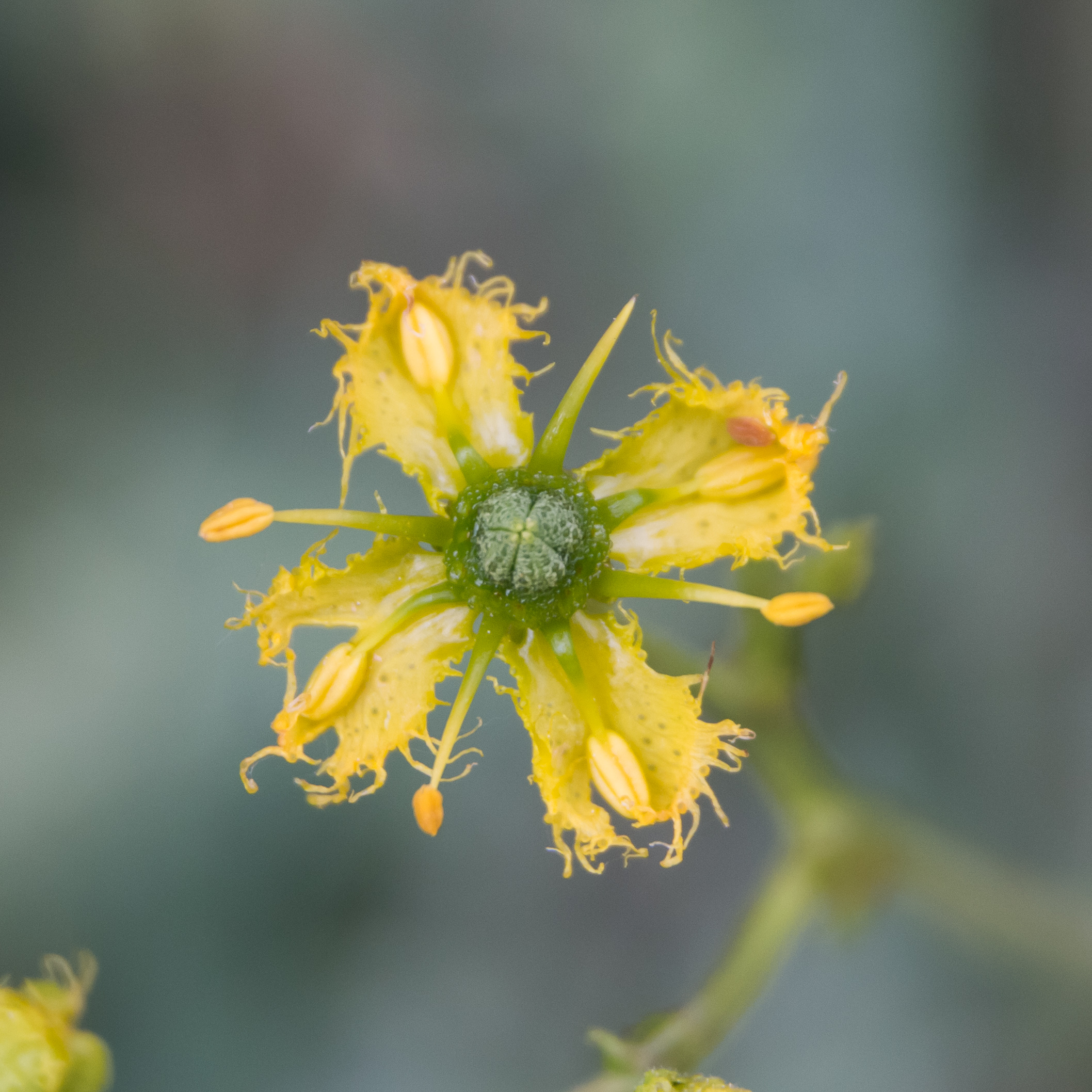 Leaves of Fringed rue